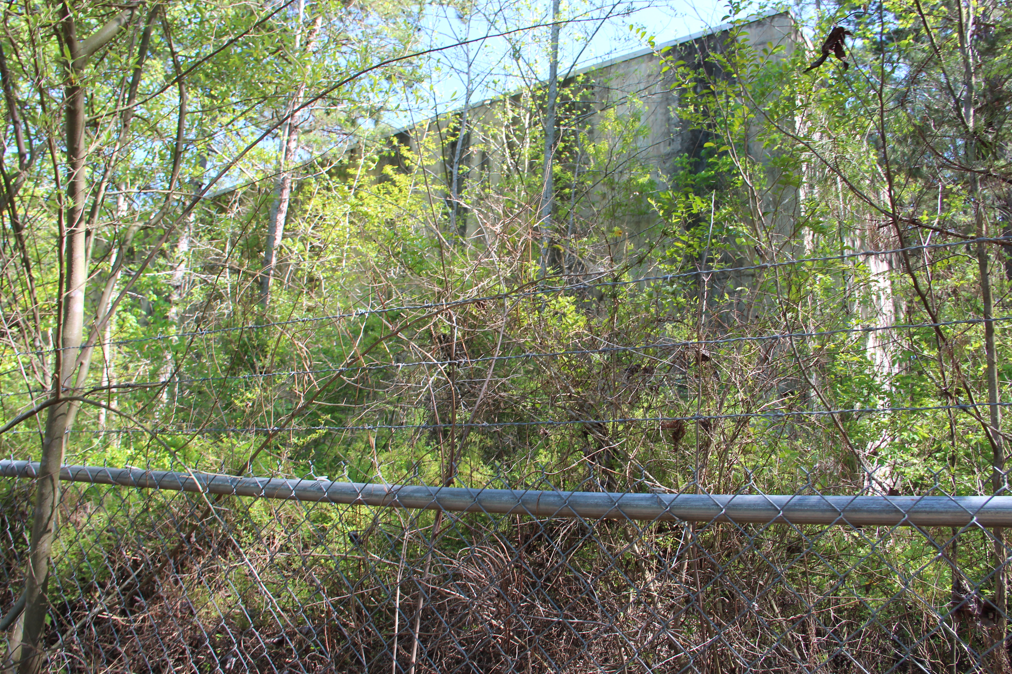 Abandoned hot cell building in the former Georgia Nuclear Aircraft Laboratory, Dawson Forest, Georgia